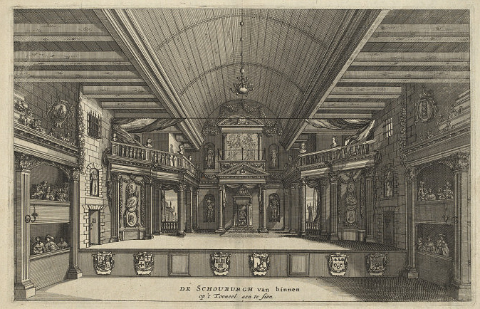 De Schouburgh van binnen, interior of the Schouwburg of Van Campen, Amsterdam Victoria and Albert Museum, London, Museum number: S.3593-2009